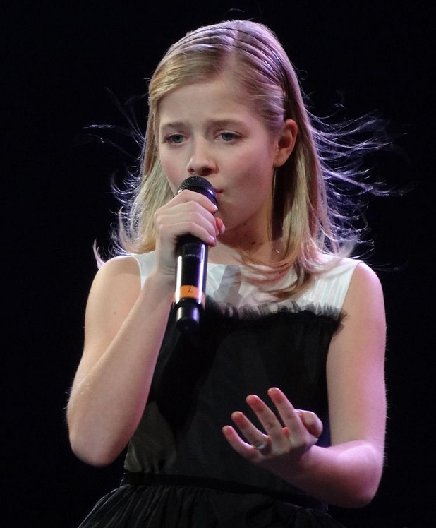 Jackie Evancho performing at Mandalay Bay Hotel in Las Vegas, Nevada, on December 29, 2011 as the headliner in the "David Foster & Friends" show. Evancho was wearing a black and white dress in the first half of the concert. Photographed with a Sony DSC-HX9V.